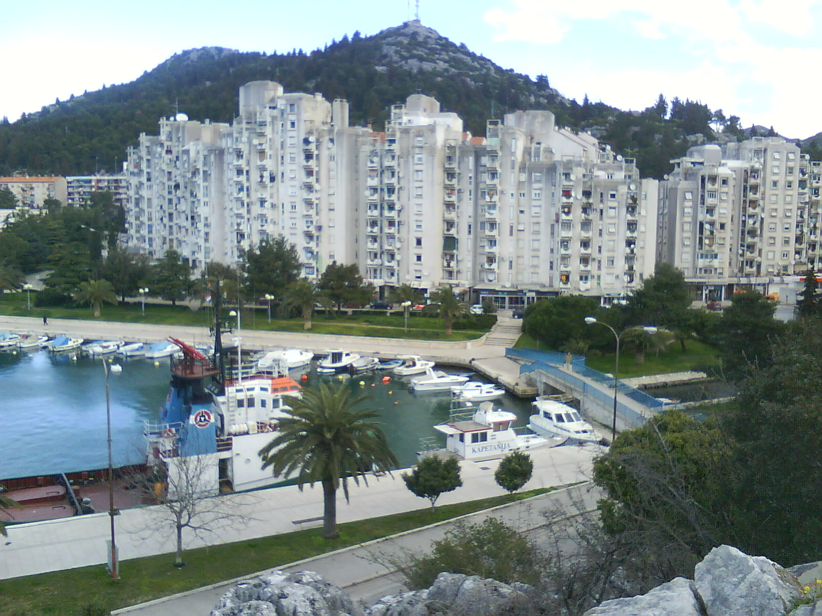 City of Ploče